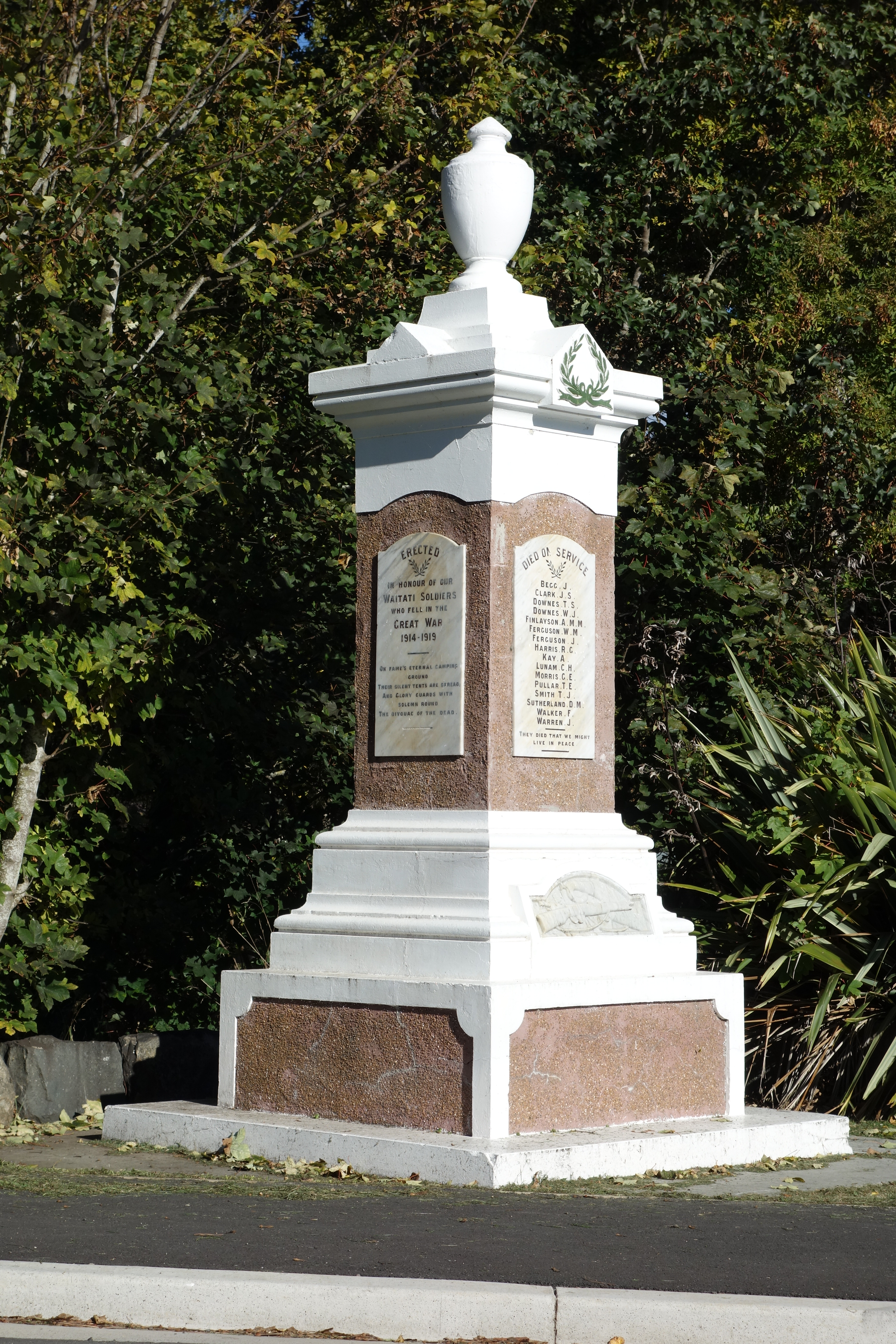 Waitati war memorial in April 2013.